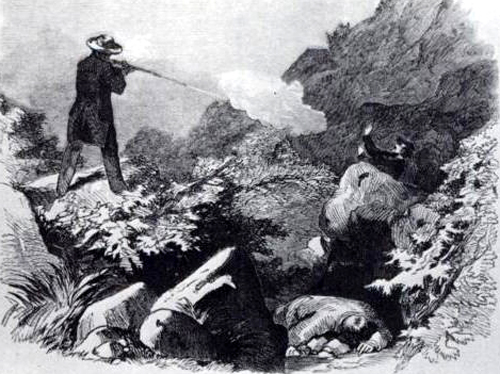 Stephen Venard, an American road agent.